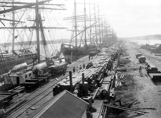 Sailing ships docked at the wharf. Wood piled on wharf ready for transport.